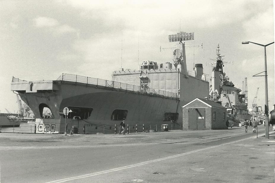 HMS Tiger (launched 1945), in Portsmouth Harbour, Portsmouth, Hampshire for Portsmouth Navy Day 1980.